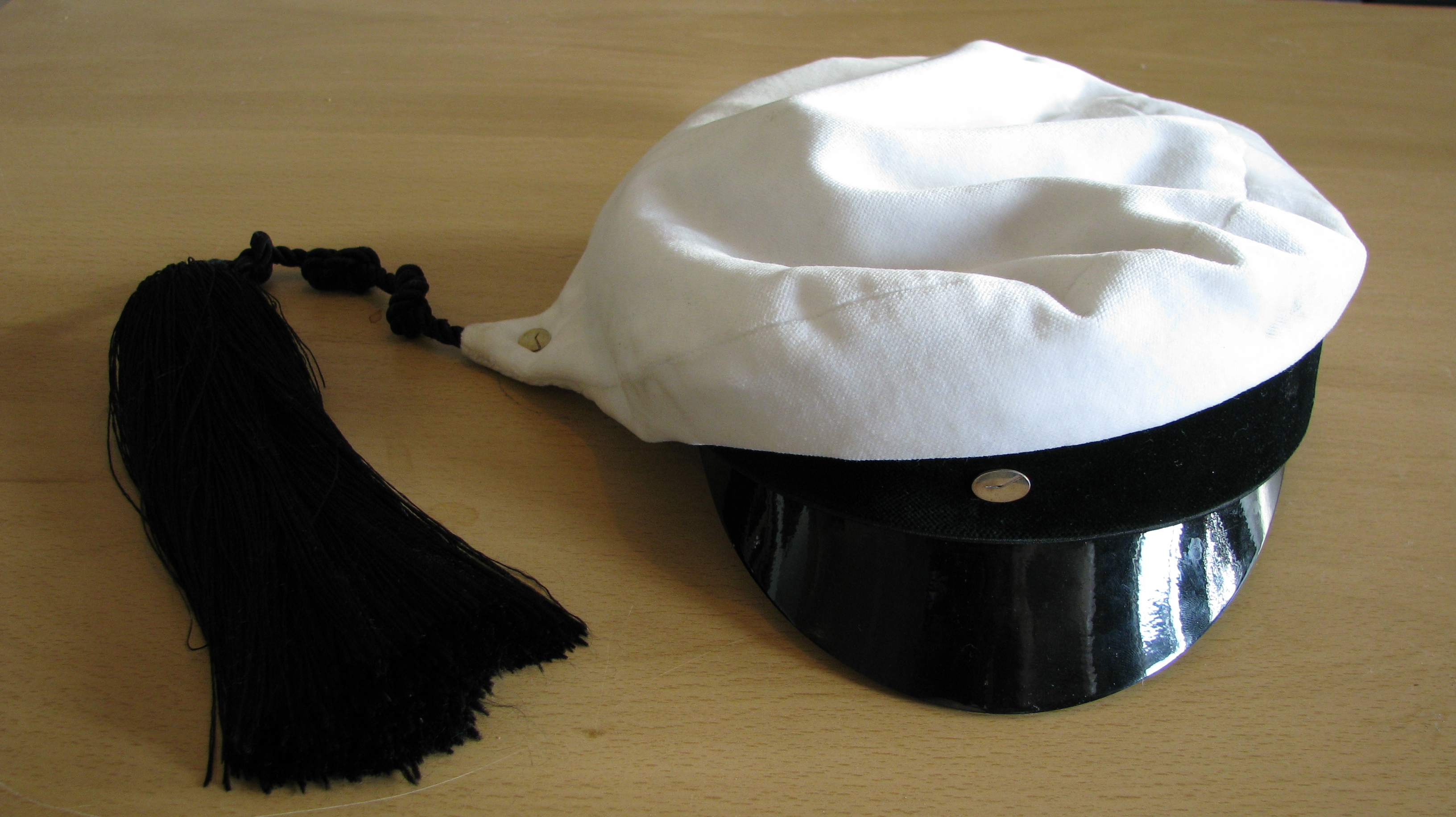 A Finnish engineering student's hat, Oulu University / Industrial Engineering